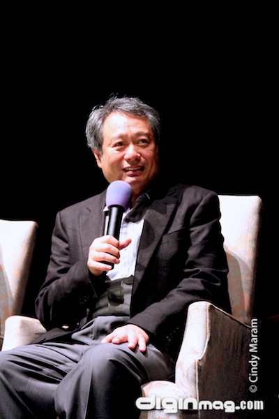 © Cindy Maram/Dig In Magazine Facebook: Twitter: Instagram: @diginmag Tumblr